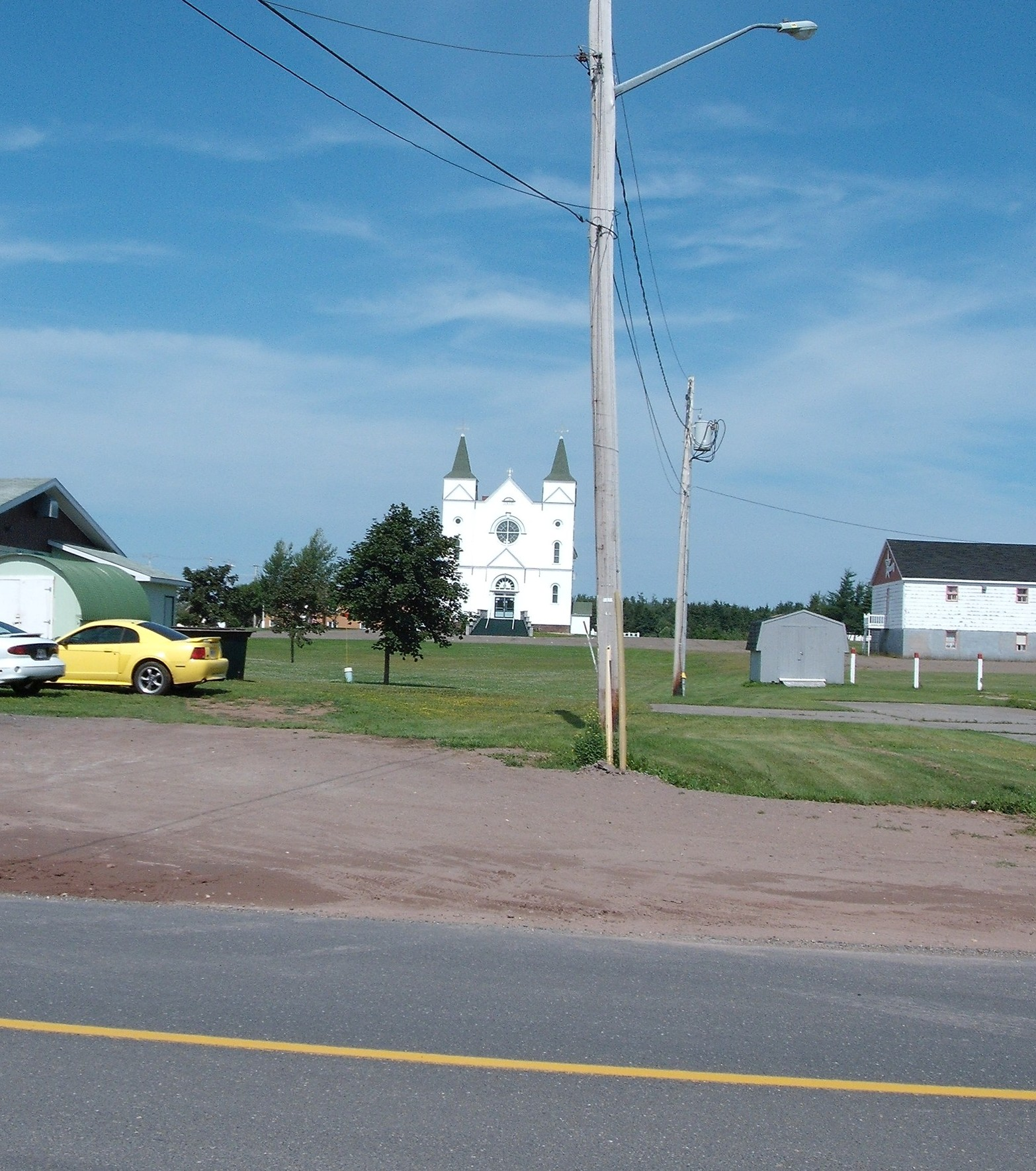 Church at Sainte-Marie-Saint-Raphaël (NB)